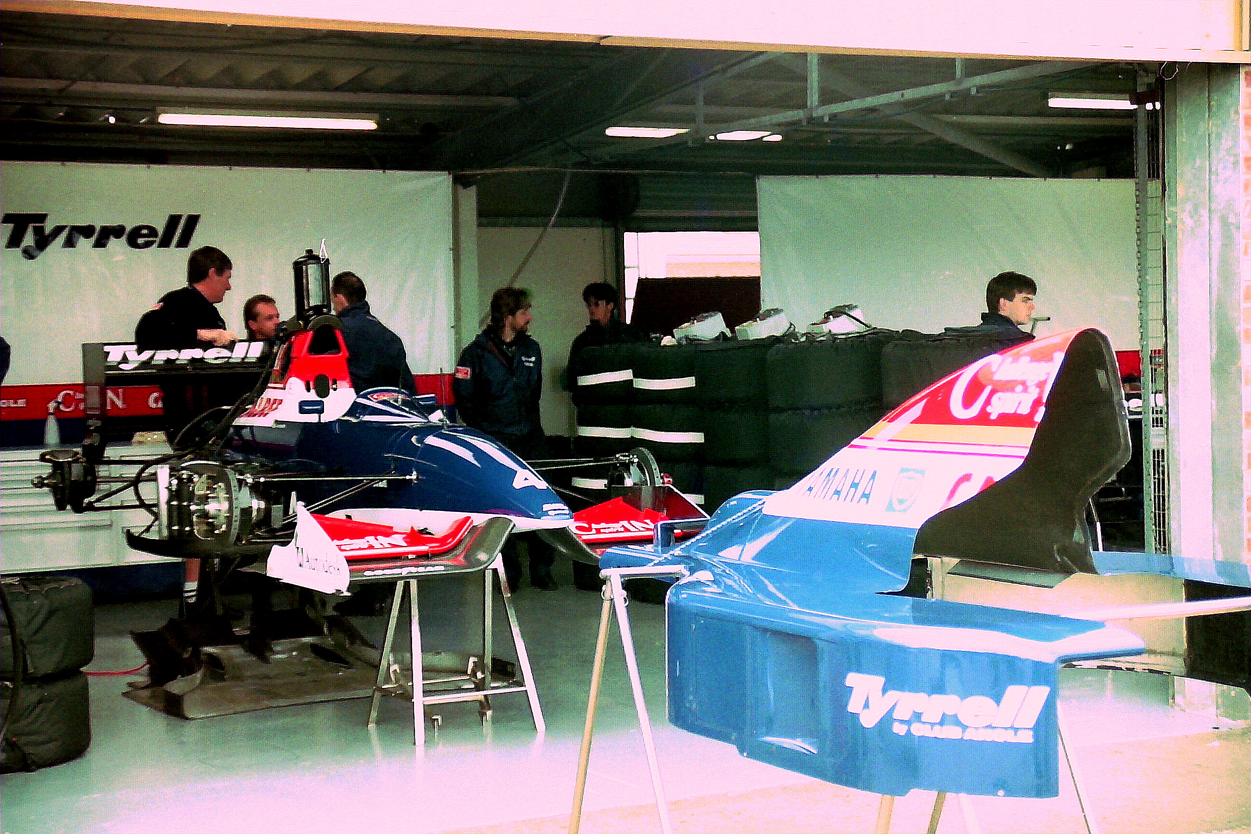 Andrea de Cesaris`s Tyrrell 021in the pit garage at the 1993 British Grand Prix